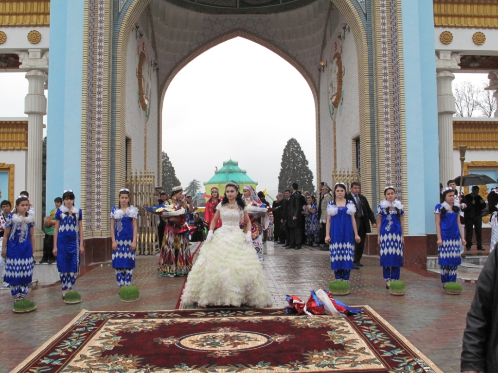 Botanical Garden, Dushanbe